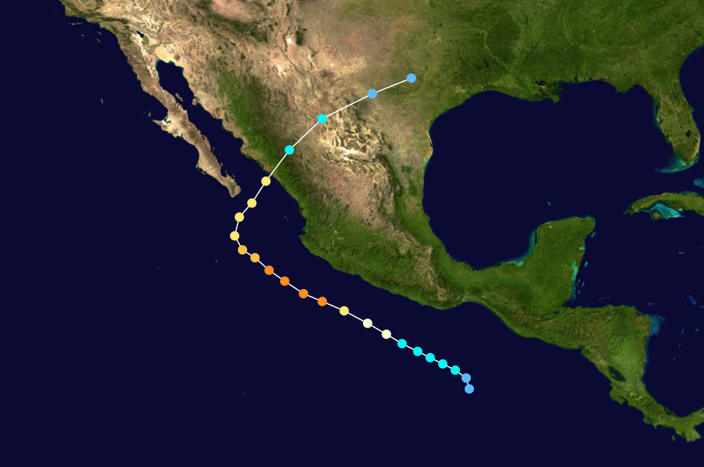 Track map of Hurricane Lidia of the 1993 Pacific hurricane season. The points show the location of the storm at 6-hour intervals. The colour represents the storm's maximum sustained wind speeds as classified in the Saffir-Simpson Hurricane Scale (see below), and the shape of the data points represent the nature of the storm, according to the legend below. Saffir–Simpson scale Tropical depression≤38 mph≤62 km/h Category 3111–129 mph178–208 km/h Tropical storm39–73 mph63–118 km/h Category 4130–156 mph209–251 km/h Category 174–95 mph119–153 km/h Category 5≥157 mph≥252 km/h Category 296–110 mph154–177 km/h Unknown Storm typeTropical cycloneSubtropical cycloneExtratropical cyclone / Remnant low / Tropical disturbance